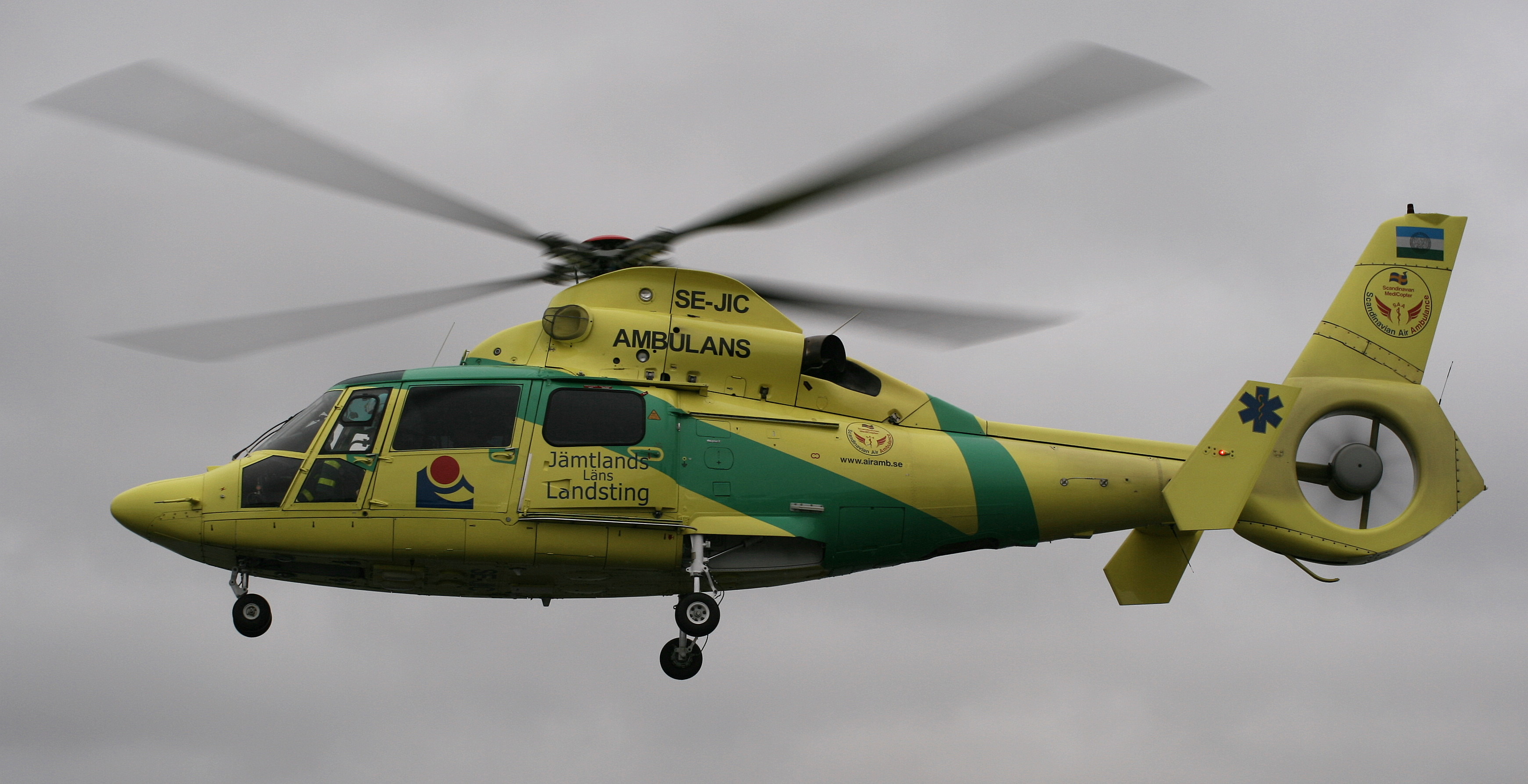 Aerospatiale AS 365N-2 Dauphin 2 (SE-JIC) from Scandinavian Air Ambulance